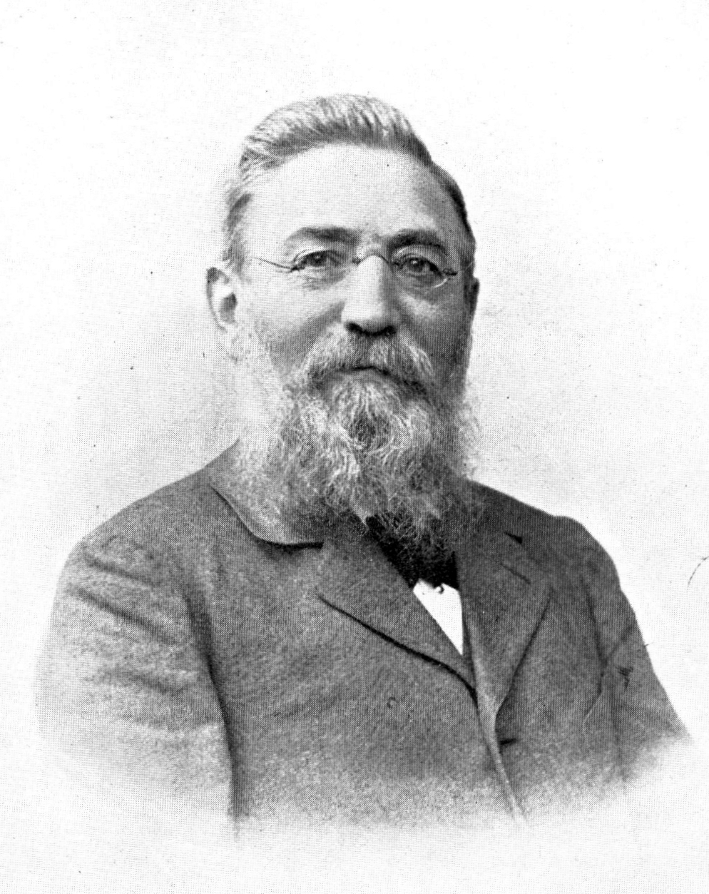 FW Helle about 1900